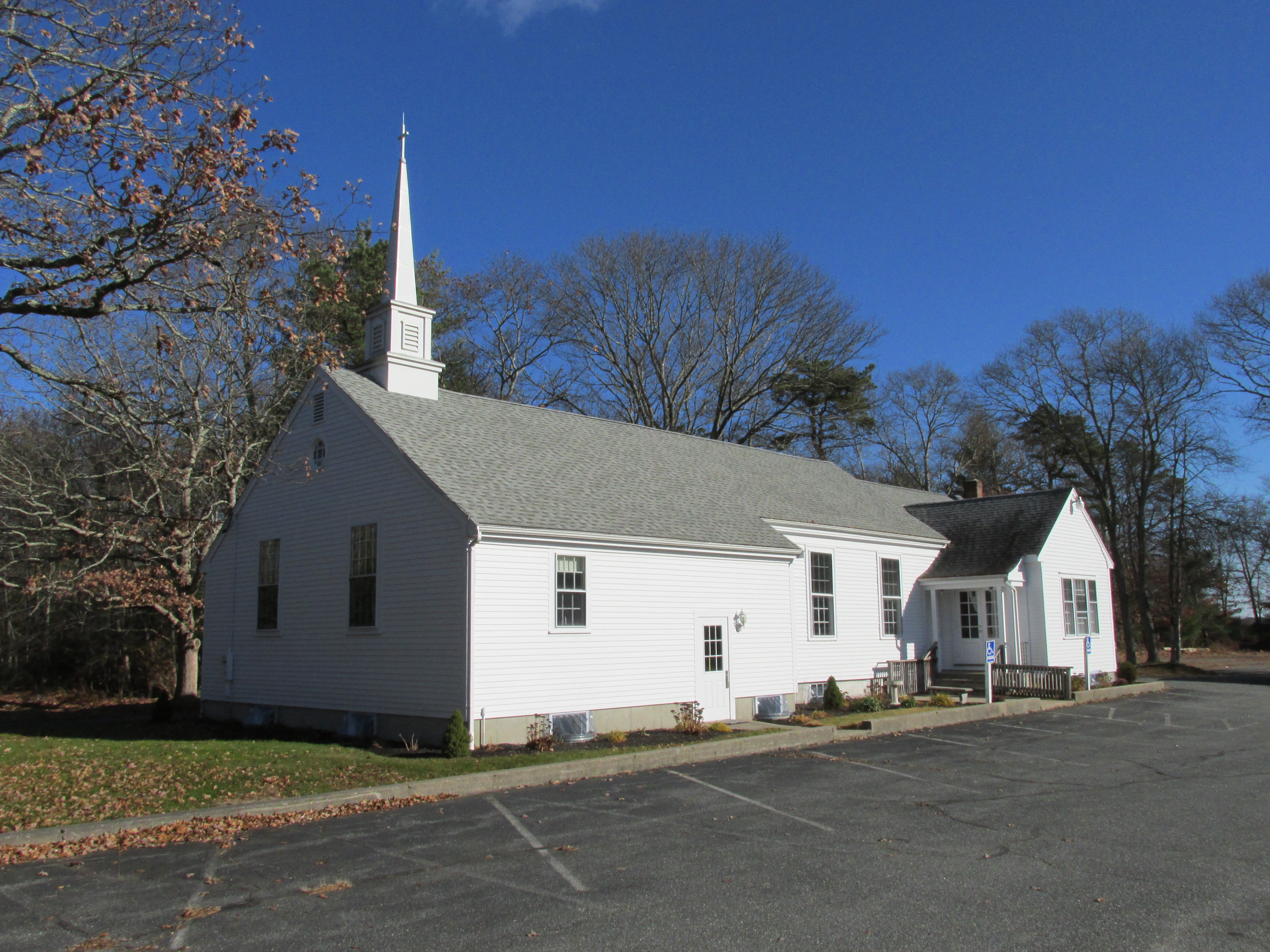 Forestdale Baptist Church, Forestdale Massachusetts